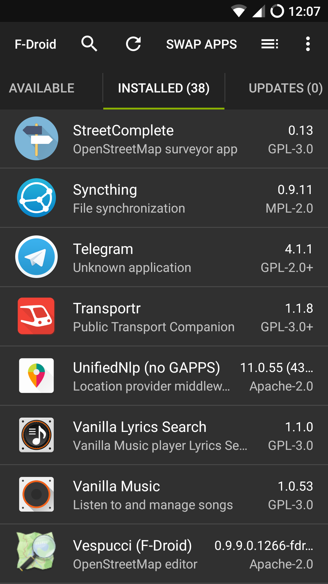 F-Droid 0.100.1 night